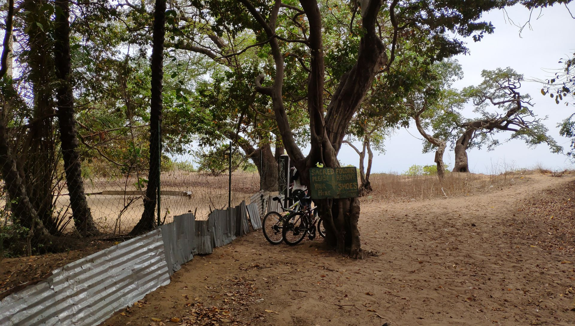 Heiliges Krokodilbecken von Folonko, Gambia British